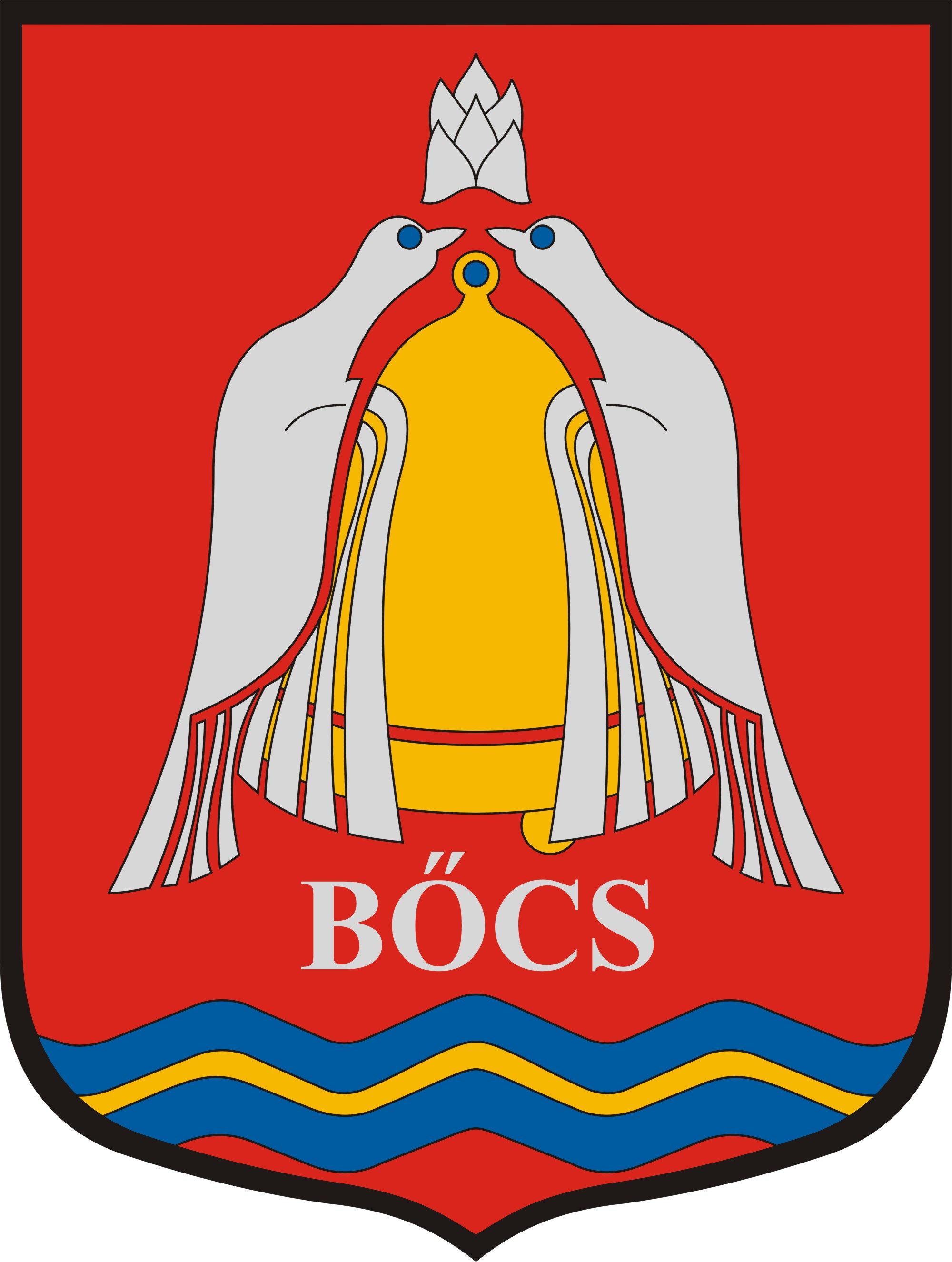 Coat of arms of Bőcs, Hungary